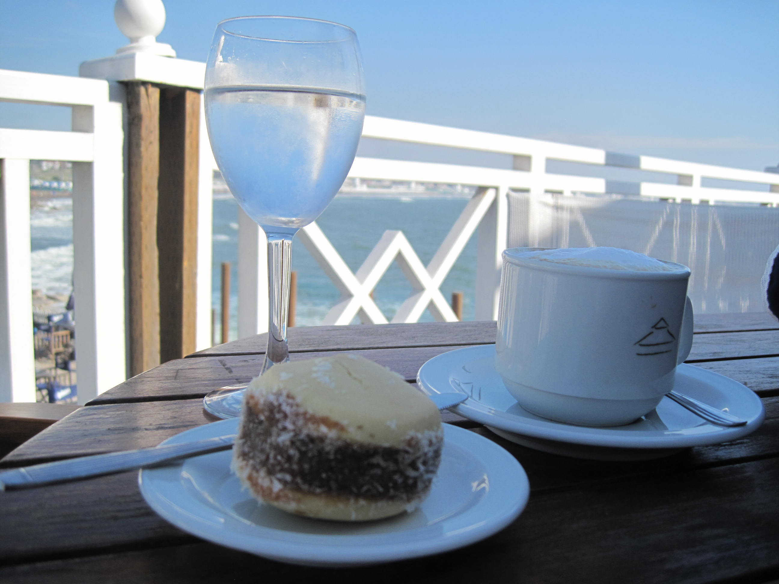 An Argentinian sweet treat, the "alfajor de maicena" is made of two layers of cookies (made with corn starch, eggs, etc) stuck together with lots of dulce de leche and sprinkled with grated coconut. A perfect match for cafe au lait.